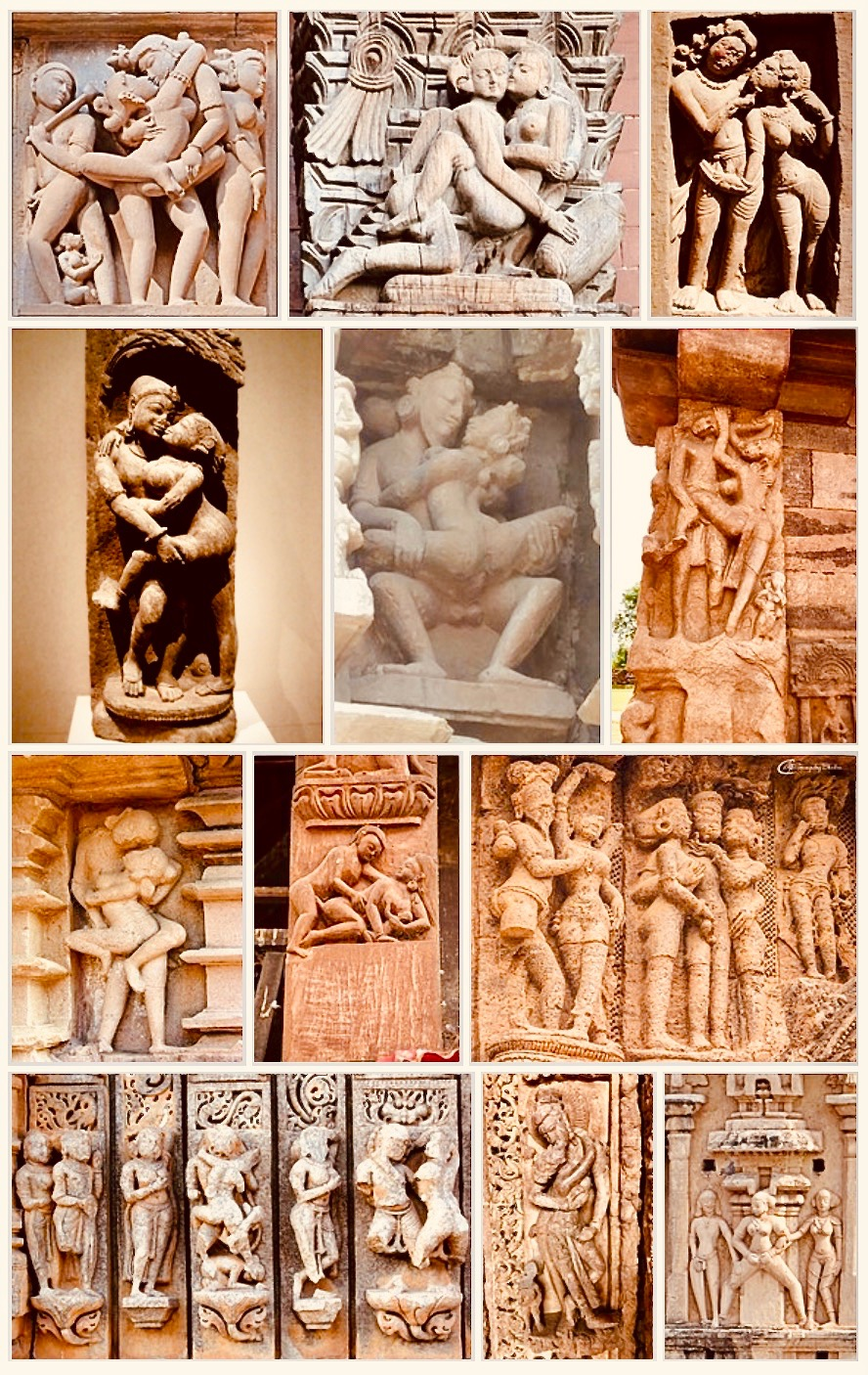 This is a collage of images available on wikimedia commons with creative commons license: 2 Erotic Kama statues of Khajuraho Hindu Temple de Lakshmana Khajurâho India 2013.jpg Palais royal (Katmandou) (8605702197).jpg Mithuna, Nachna, Parvati-Tempel 1.jpg Loving couple mithuna- 13th century India.png Erotic sculpture at virat temple shahdol.jpg 7th - 8th century Huchappaya matha temple, amorous couples in mithuna kama scenes, Aihole Hindu monuments 5.jpg India-5617 - Flickr - archer10 (Dennis).jpg Umamaheshwor Temple-IMG 4023.jpg Sculpture on AudienceHall (Jagamohana, Pidha Deul)-8.jpg Kama Art Culture Sex carved in stone Saas Bahu Hindu temple Udaipur Rajasthan India 2014.jpg 8th century couple embraced and mouth kissing at Tivara Deva temple, she stands on his feet, Sirpur monuments Chhattisgarh India.jpg 4 Erotic statues of Hindu Virupaksha Shiva Temple Hampi, Vijayanagar Karnataka India.jpg